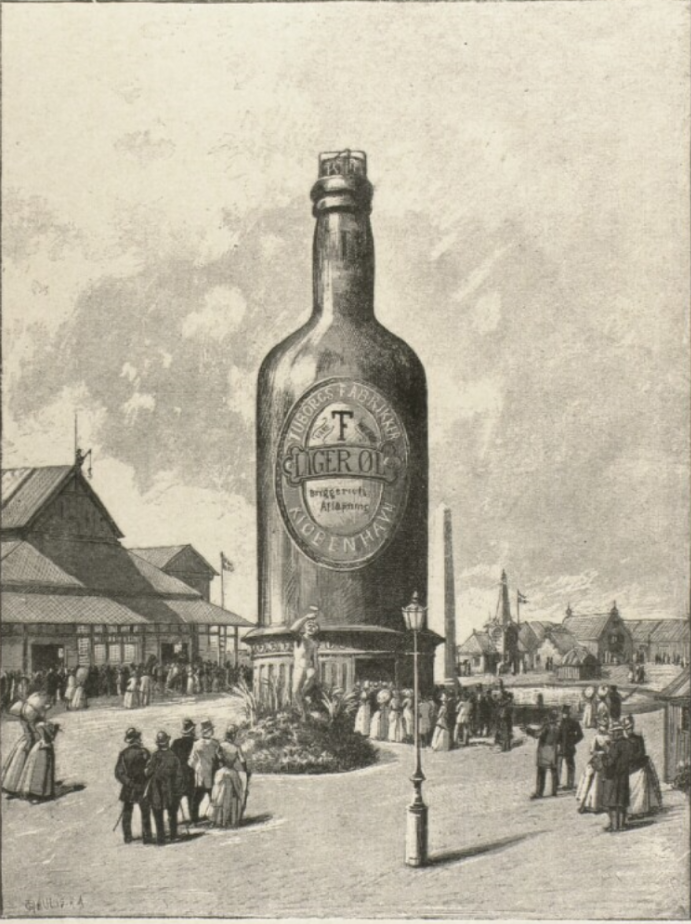 Den nordiske Industri-, Landbrugs- og Kunstudstilling 1888, Tuborgflasken med elevatoren